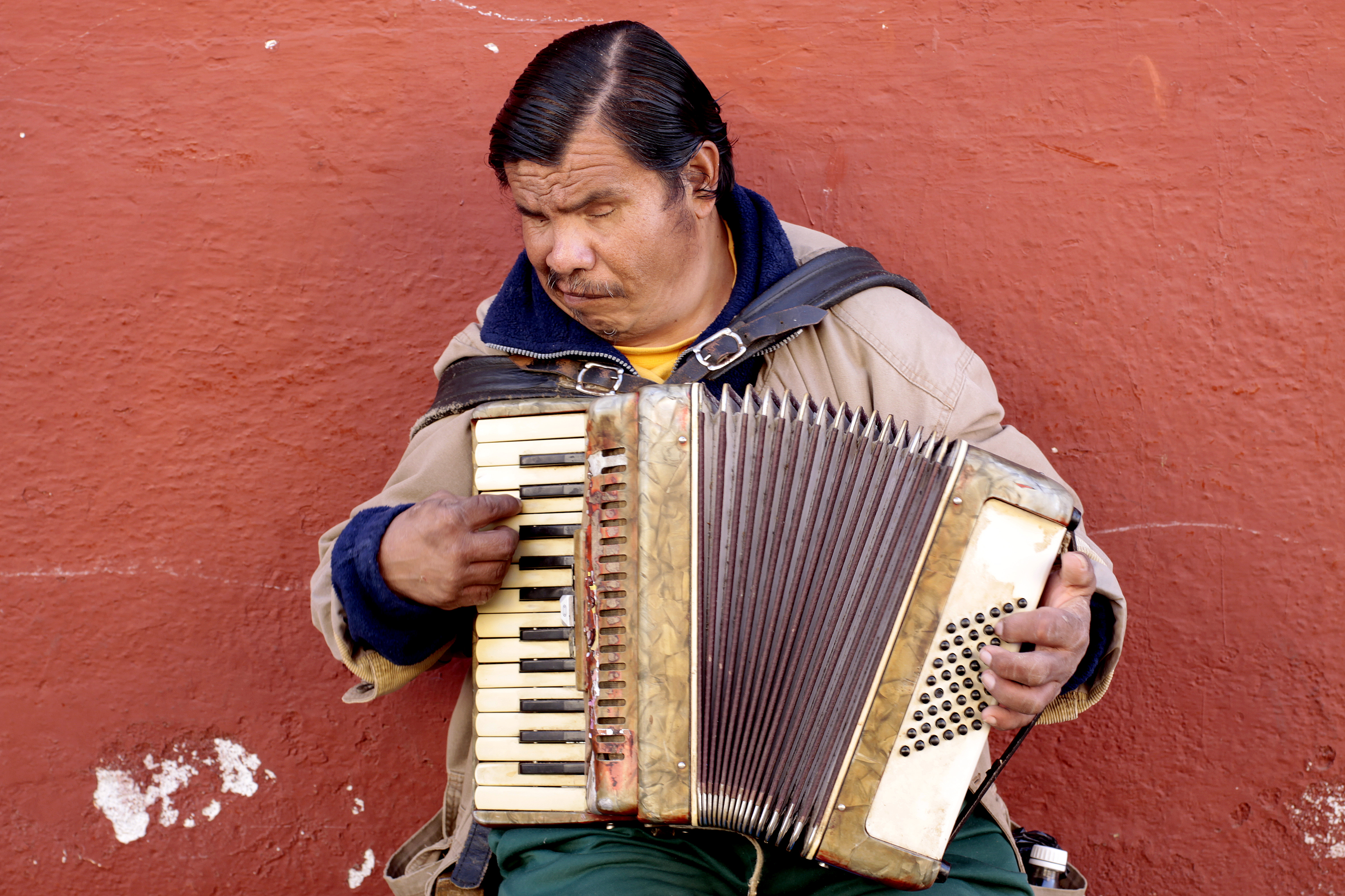 Blind accordion player, Patzcuaro, Michoacán, México